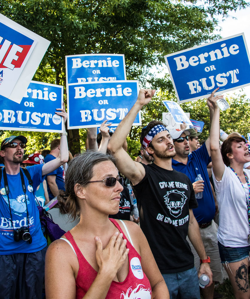 Protest at the Wells Fargo Center before, during and after the roll call vote nominating Hillary Clinton